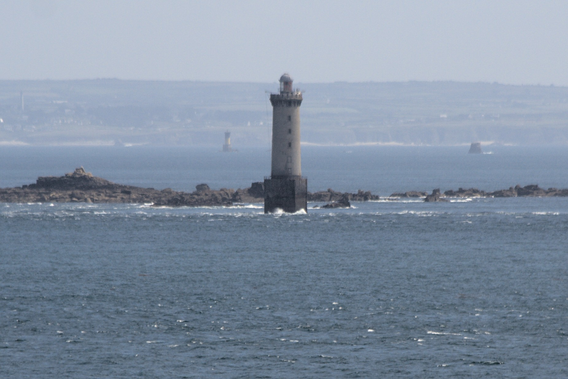 Kéréon lighthouse seen from Ushant Island